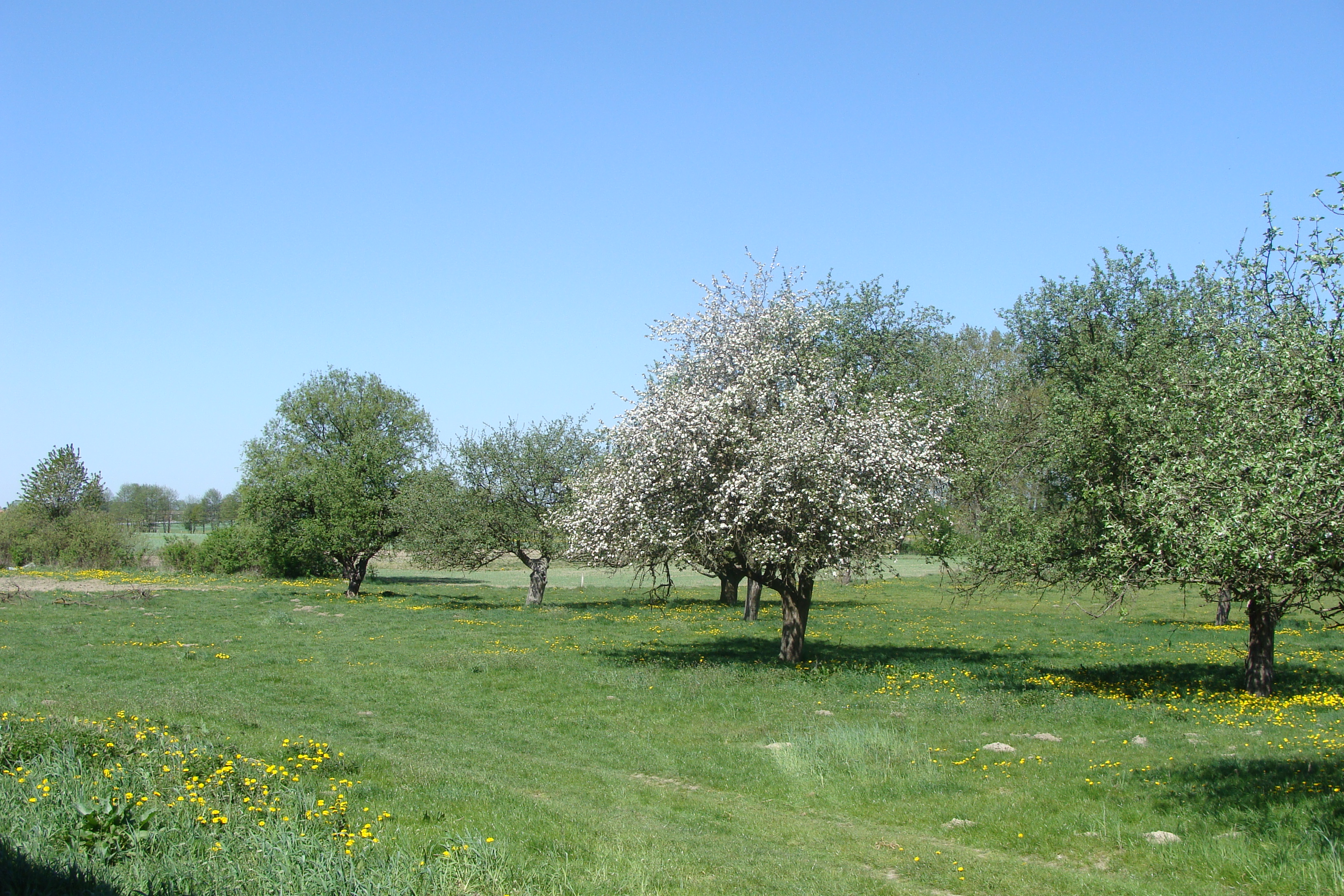 Orchard (Kolonia Strzałki, 2009 Polska)